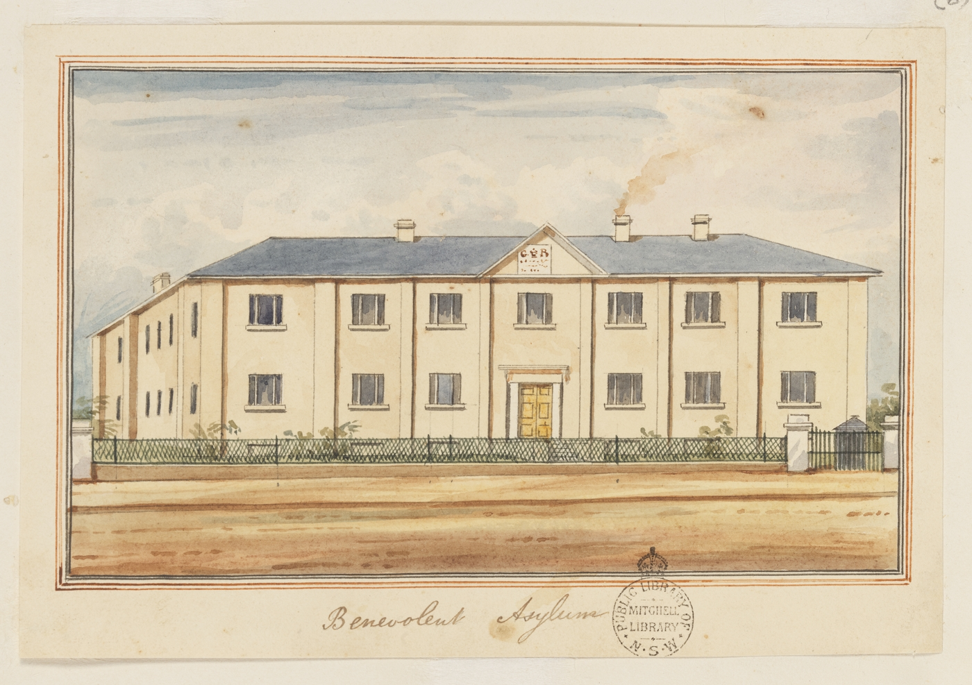 Painting by Frederick Garling of the Benevolent Society building, Sydney, New South Wales